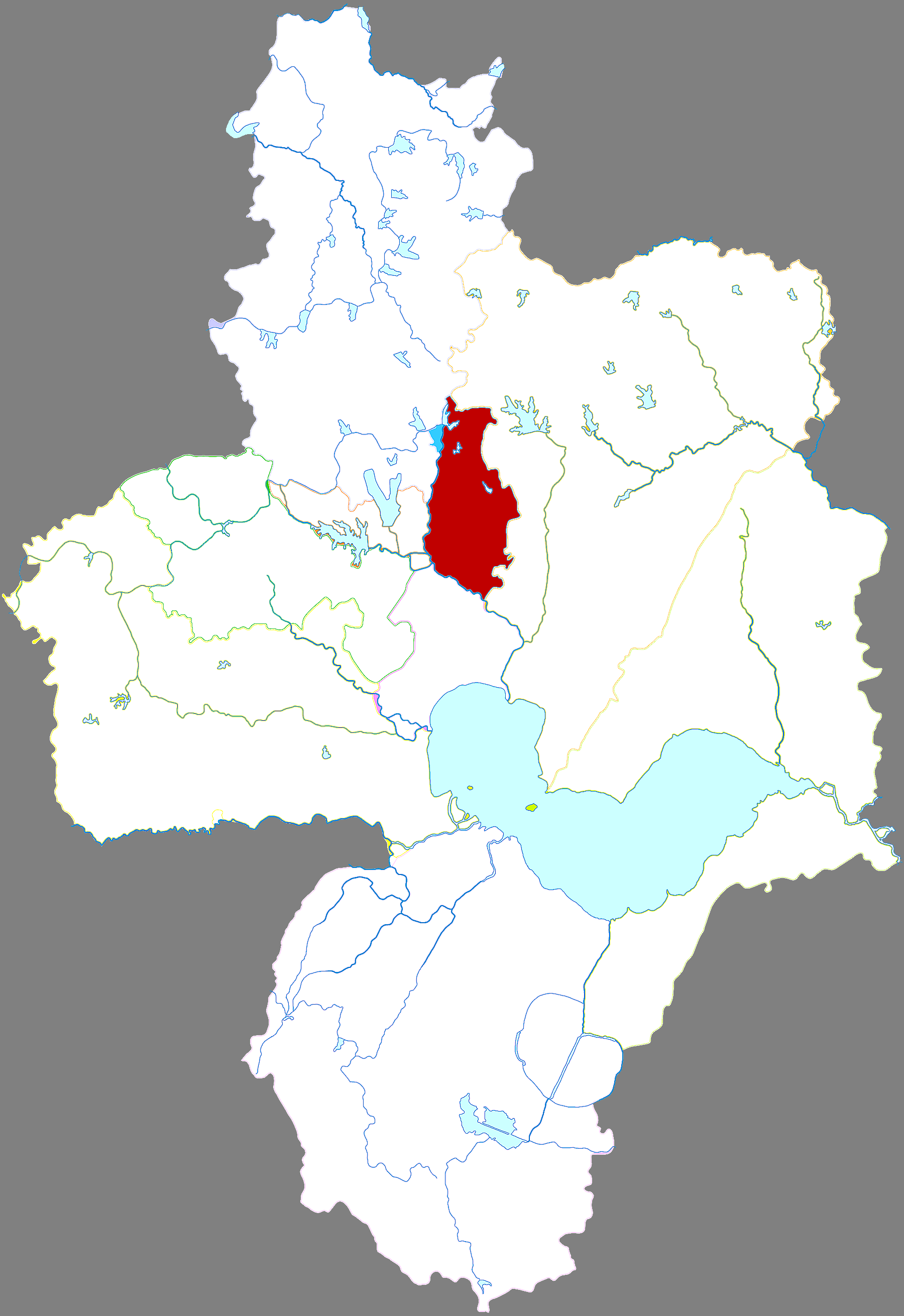 Location of Yaohai district in Hefei city, China